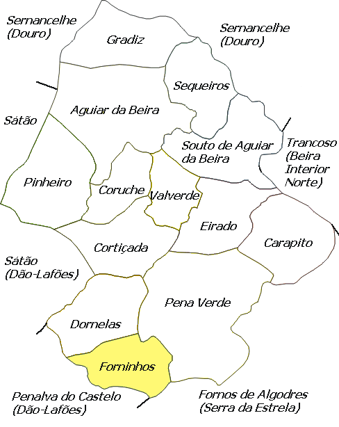 Map of Forninhos parish in Portugal. Author: Kullanıcı:Mskyrider.